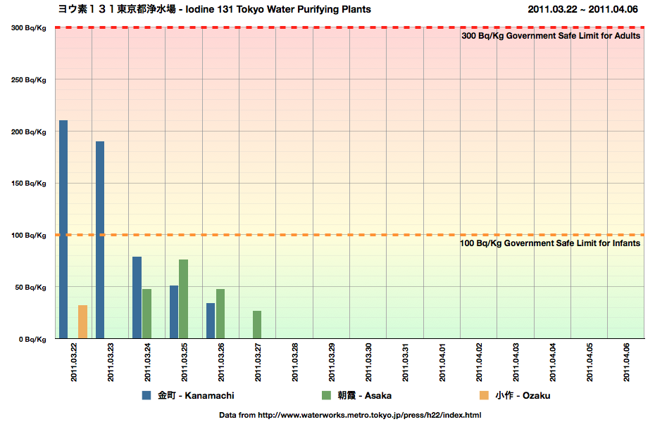 Iodine-131 water contamination in Tokyo Prefecture water purifying plants, March 22 to April 6, 2011